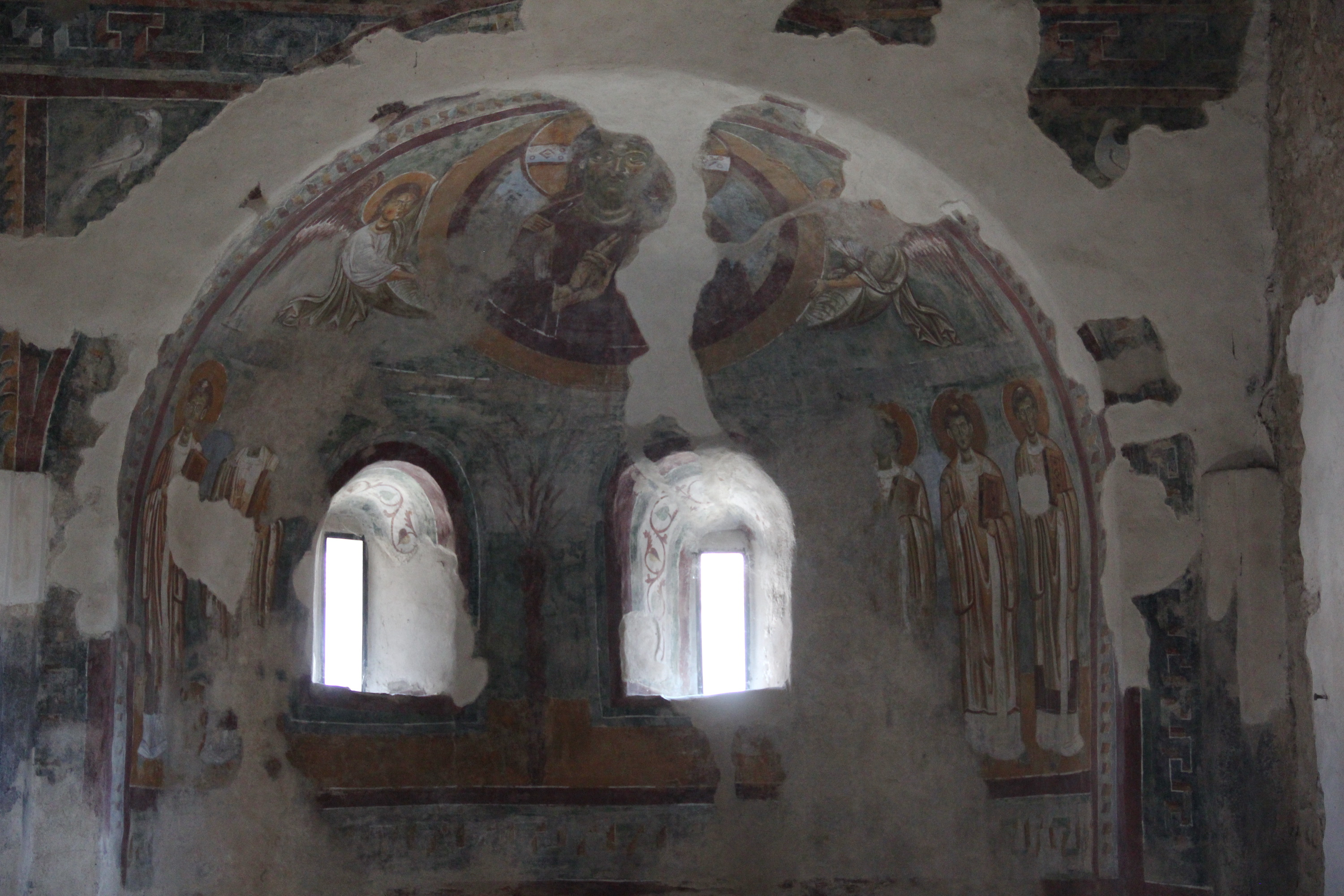 Chiesa di San Michele, Oleggio - Frescos San Michele, Oleggio Native nameChiesa di San Michele, OleggioLocationOleggio, Piedmont, ItalyCoordinates45° 35′ 58.02″ N, 8° 37′ 31.76″ E Established10th century date QS:P,+950-00-00T00:00:00Z/7Authority control : Q3671230 VIAF: 247406324 institution QS:P195,Q3671230